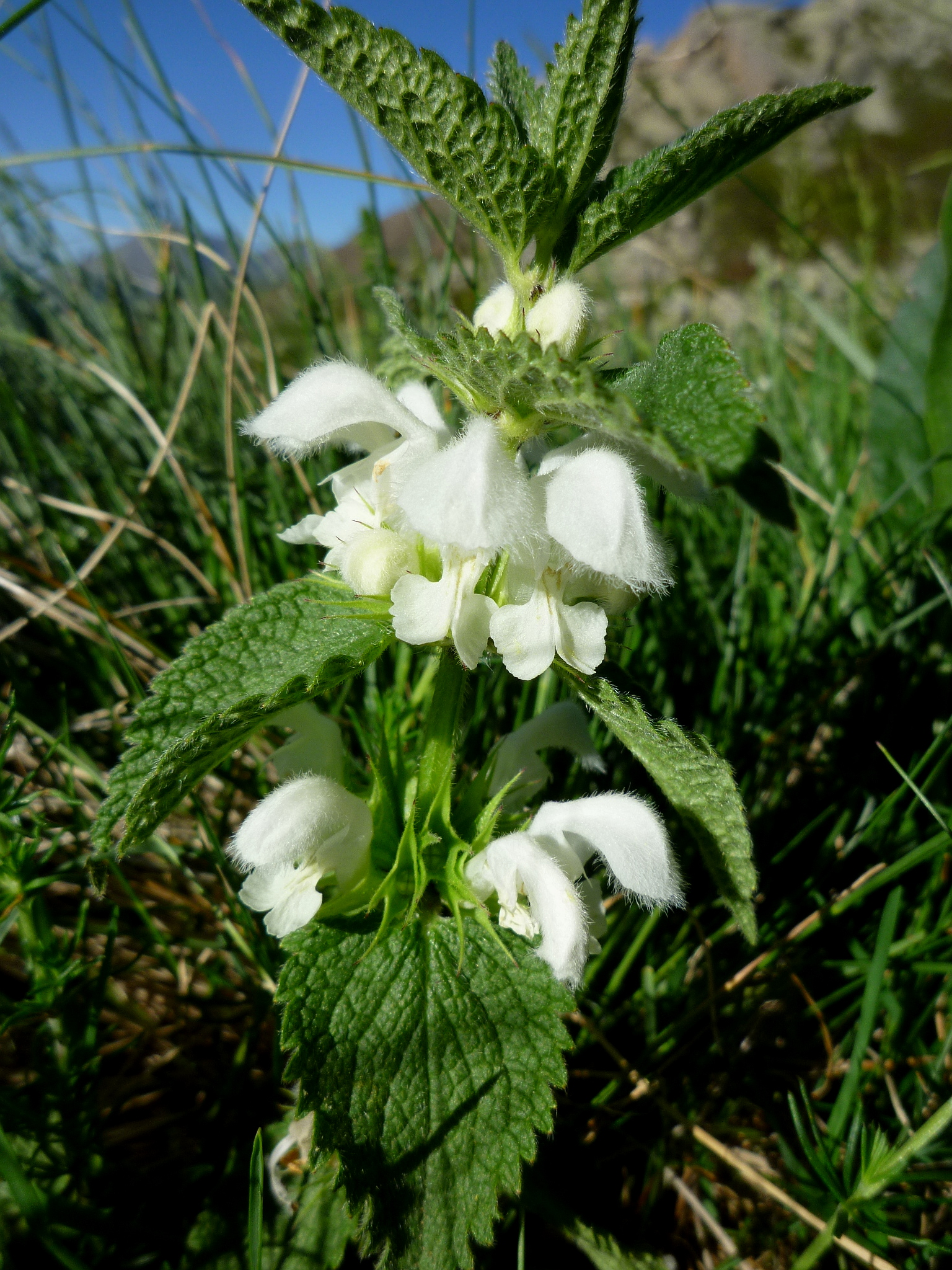 Lamium album. In Cabdella (Pallars Jussà - Catalunya. To 2.110 m altitude